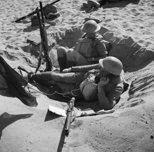 A 6 NZ Infantry Brigade battalion signal post dug in the sand during a 2 NZEF exercise at Maadi, Egypt. Taken circa 1941 by an official photographer. Department of Internal Affairs. War History Branch :Photographs relating to World War 1914-1918, World War 1939-1945, occupation of Japan, Korean War, and Malayan Emergency. Ref: DA-00920-F. Alexander Turnbull Library, Wellington, New Zealand. The person who took this image was an official photographer of the NZ Military Forces and thus copyright in this work rests or rested with the Crown. The Crown has released this work under the CC-BY 3.0 unported license. Refer to source website for details: This work's copyright expired 50 years after creation in New Zealand and probably also in countries following the rule of the shorter term. Date 1941